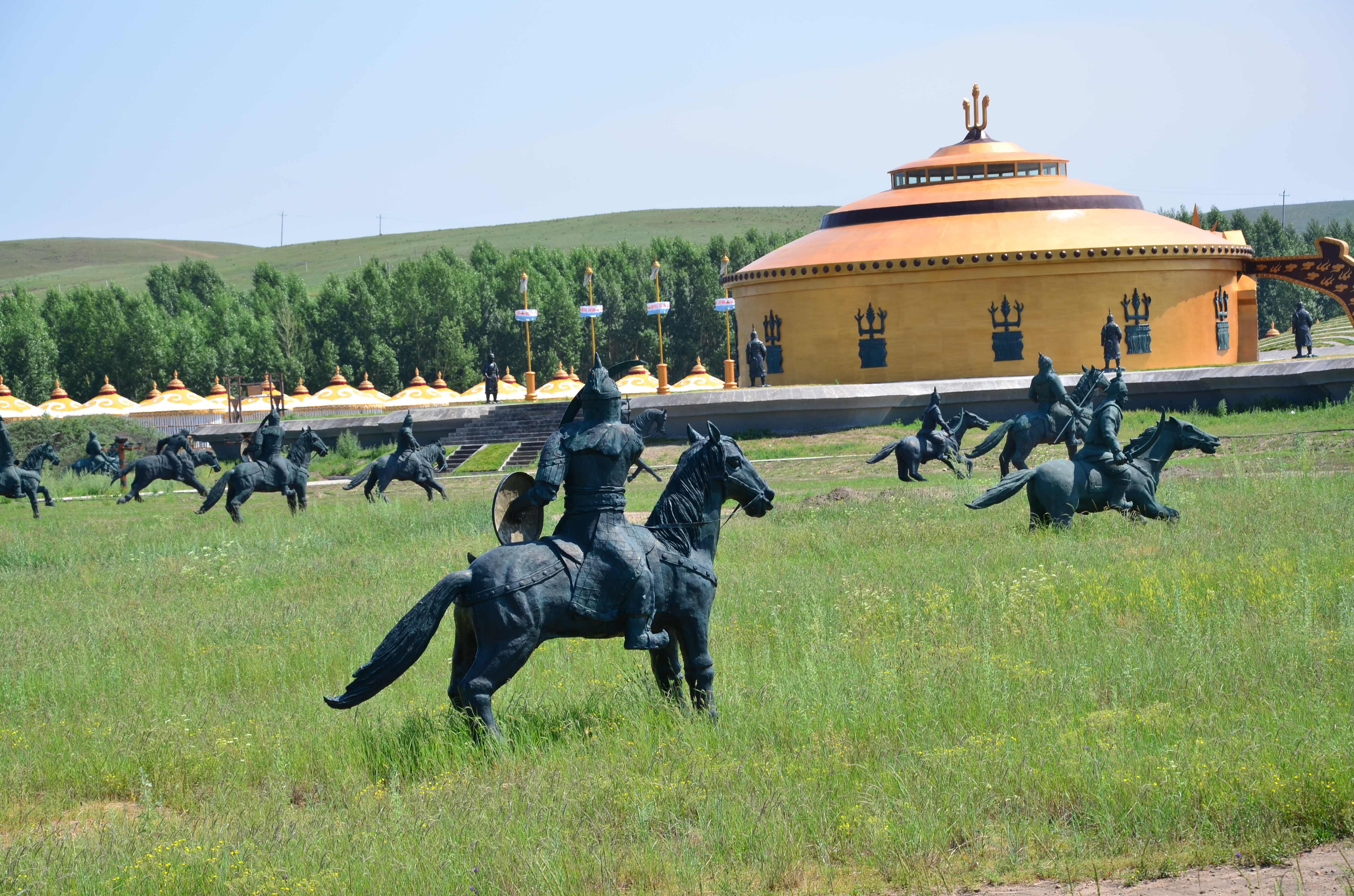 The former temporary palace of Genghis Khan in Fengning County, Hebei,China.